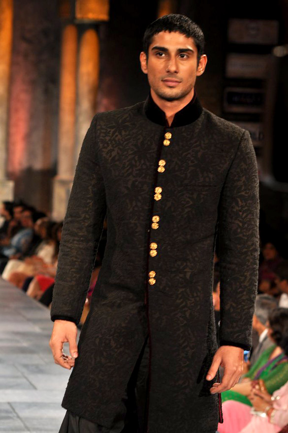 Prateik Babbar at 'Mijwan-Sonnets in Fabric' fashion show